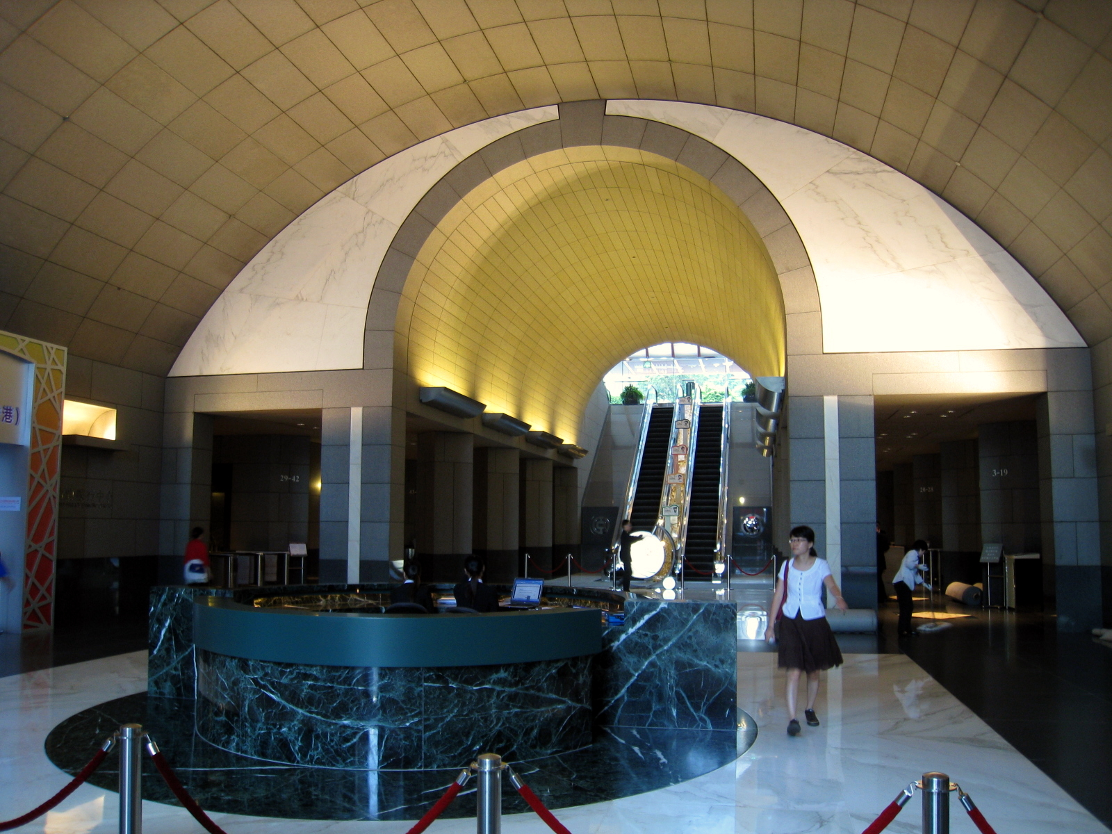 Bank of China Tower lobby 中文（香港）: 中銀大廈 (香港)